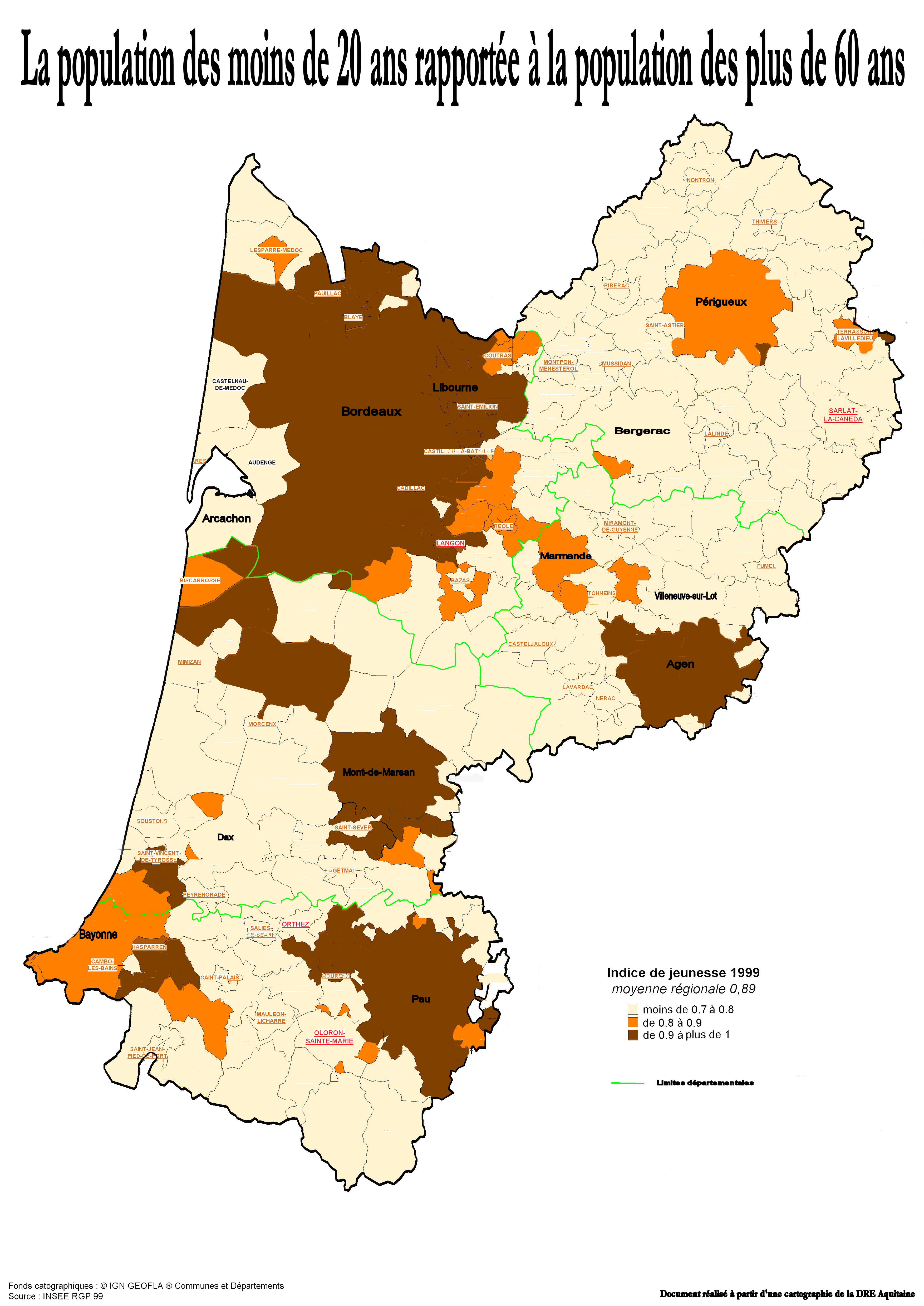 The population aged under 20 reported that more than 60 years in Aquitaine (1999)